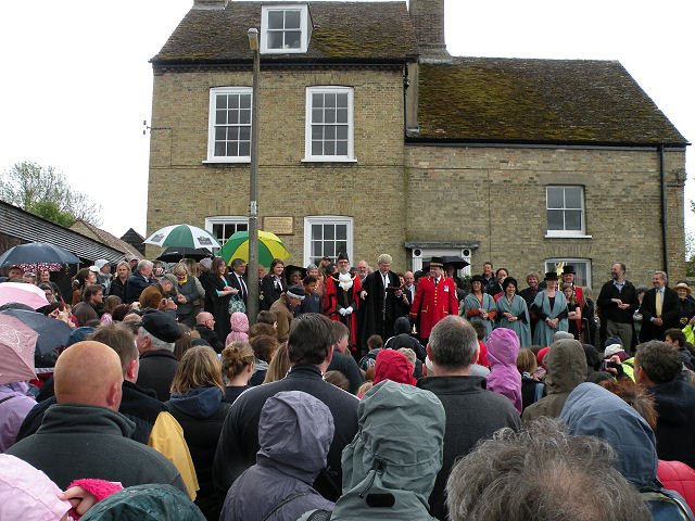 Reach Fair Proclamation 2009. The Mayor of Cambridge, Town Crier, and 3 city Bailiffs (in grey) and Serjeant-at-Mace (at back) listen as the Chief Executive of the Council reads the proclamation. "That all idle & evil persons within this Fair do depart forthwith upon pain of imprisonment". It is not clear what evidence would sustain a charge of Being Idle & Evil within Reach Fair. For the plaque on Hill Farm see 1206532